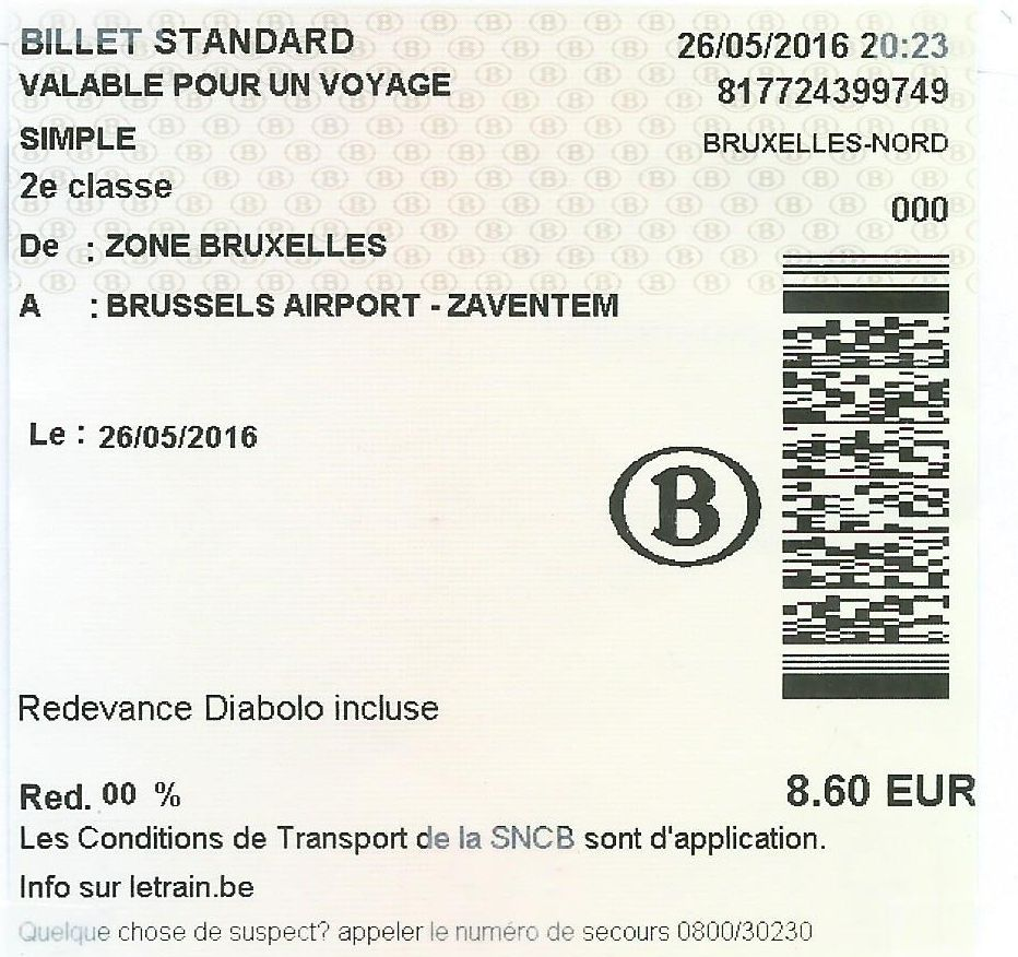 NMBS/SNCB ticket from Brussels North station to Brussels Airport-Zaventem.